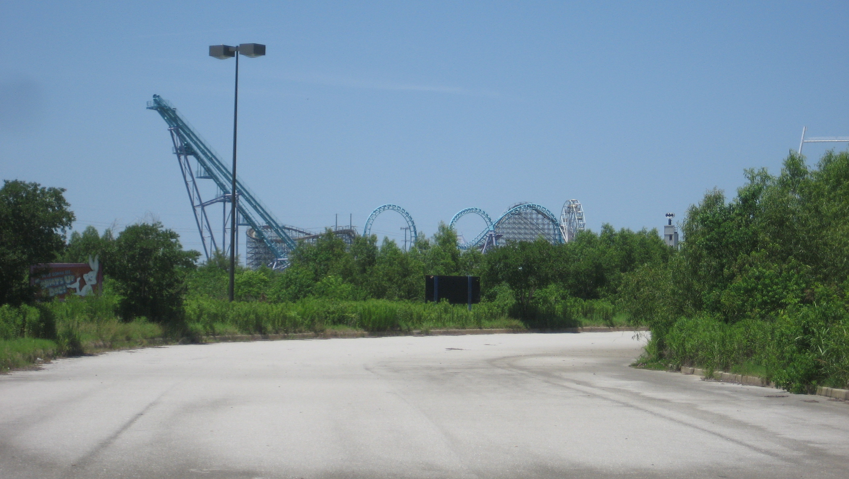 Six Flags New Orleans. Amusement park in Eastern New Orleans, closed since damage in the levee failure disaster during Hurricane Katrina in 2005.